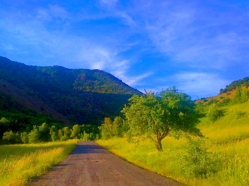 Road to Shaput in Nochiya.